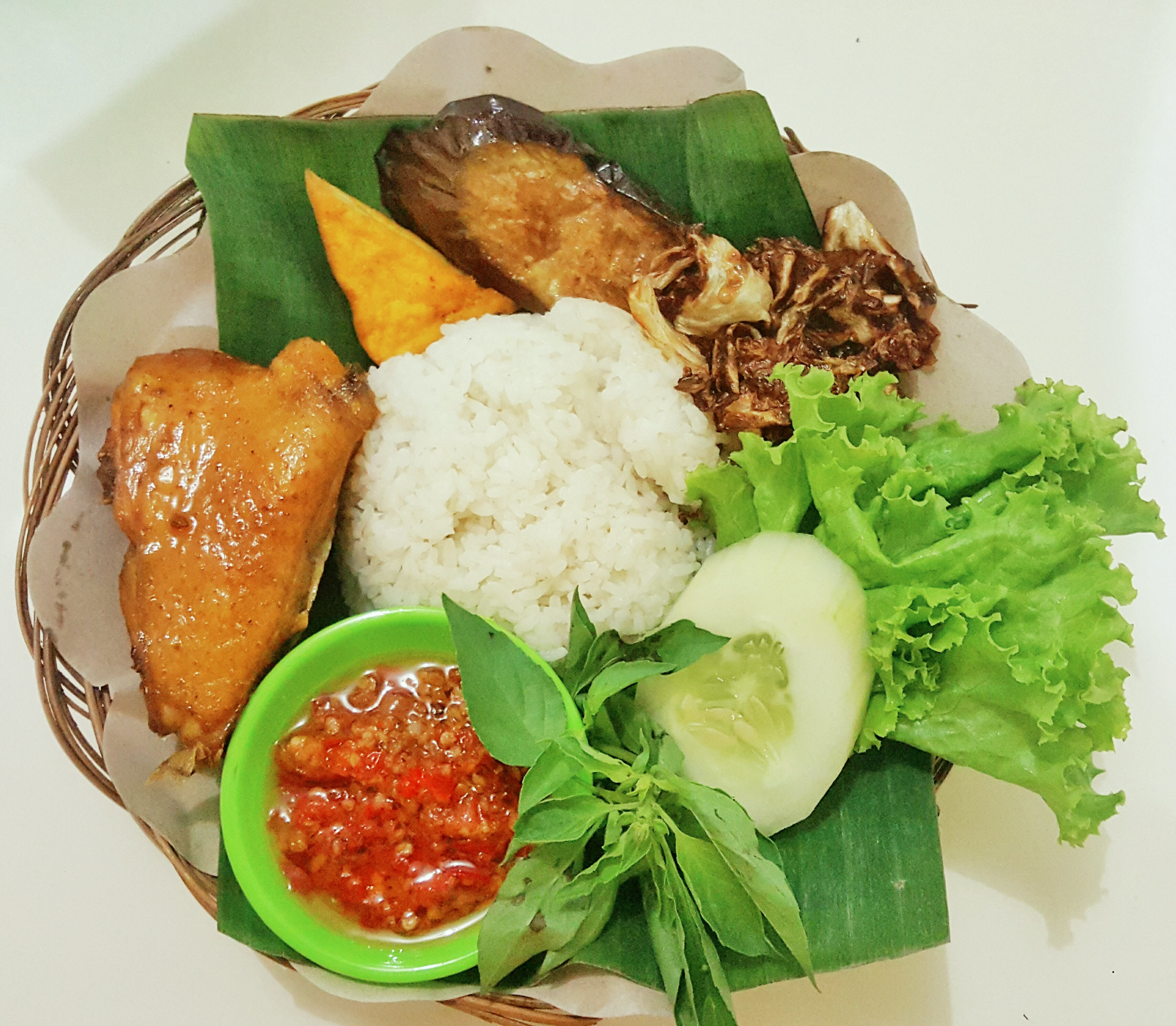 beautiful dish of fried stuff and vegetables